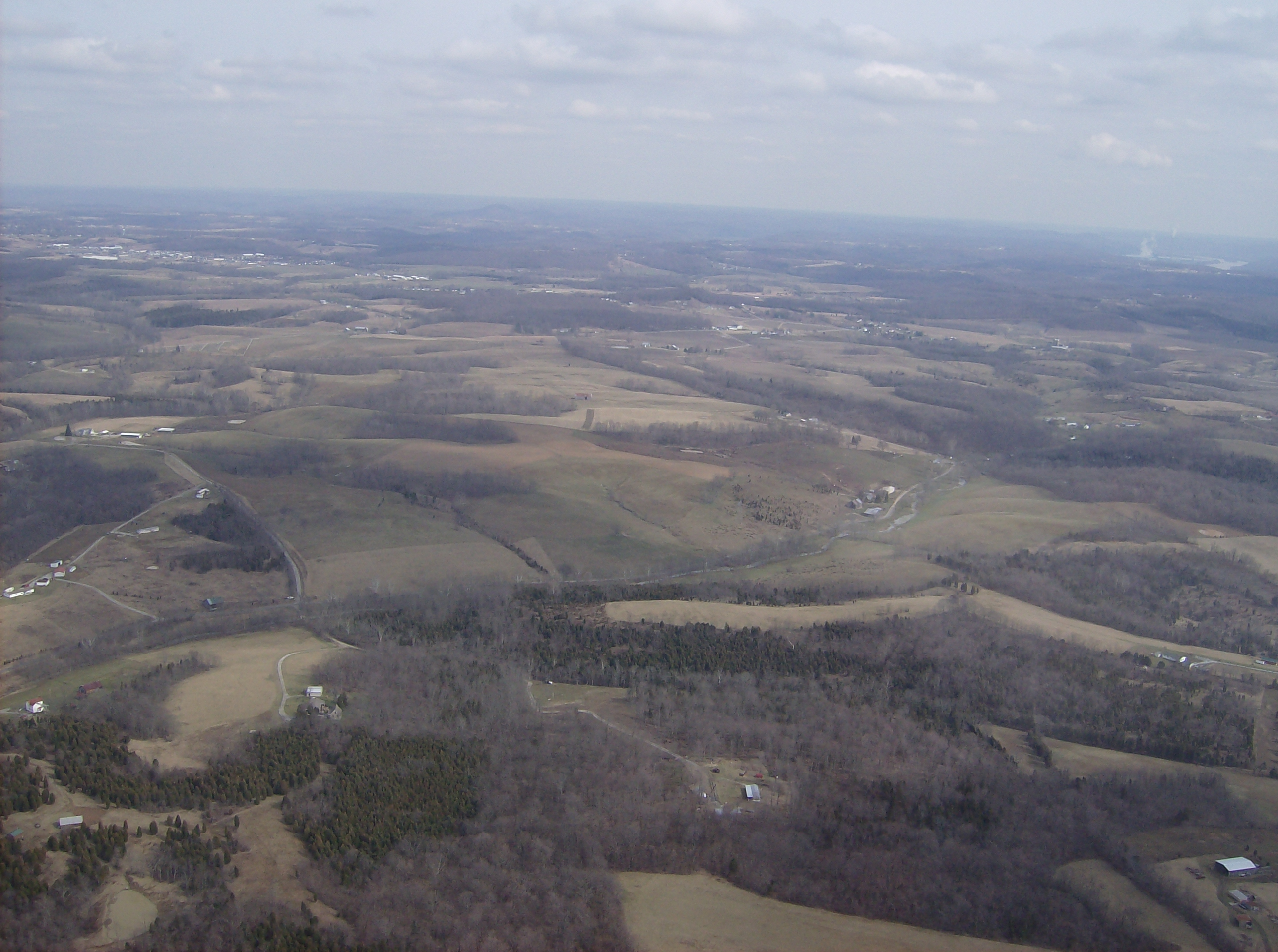 Countryside in southeastern Liberty Township, Adams County, Ohio, United States. The road going across the picture is Creek Road; its tree-obscured intersection on the left side of the picture is with Tomlin Road. Picture taken from a Diamond Eclipse light airplane at an altitude of 2,100 feet MSL and a bearing of approximately 123º.